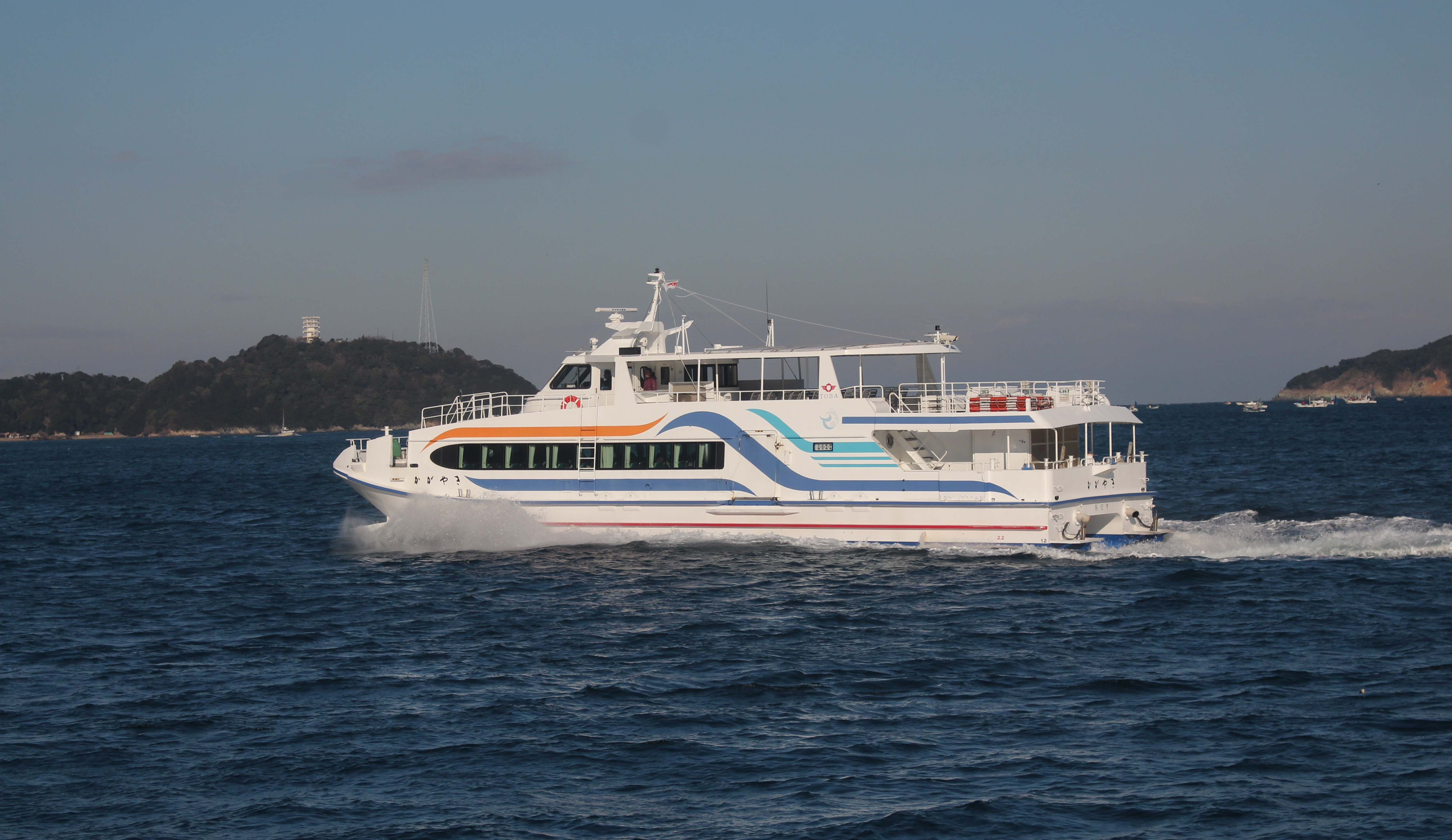 Kagayaki and Hinata Island, Toba, Mie prefecture, Japan.